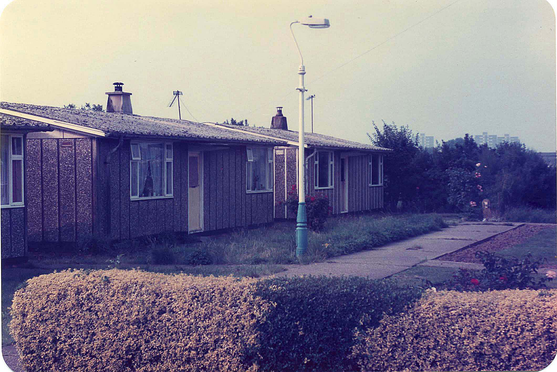 Prefabs in Wingfield Road